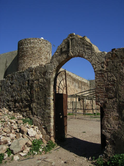 Inside the fortress Castro Marim, Algarve, Portugal